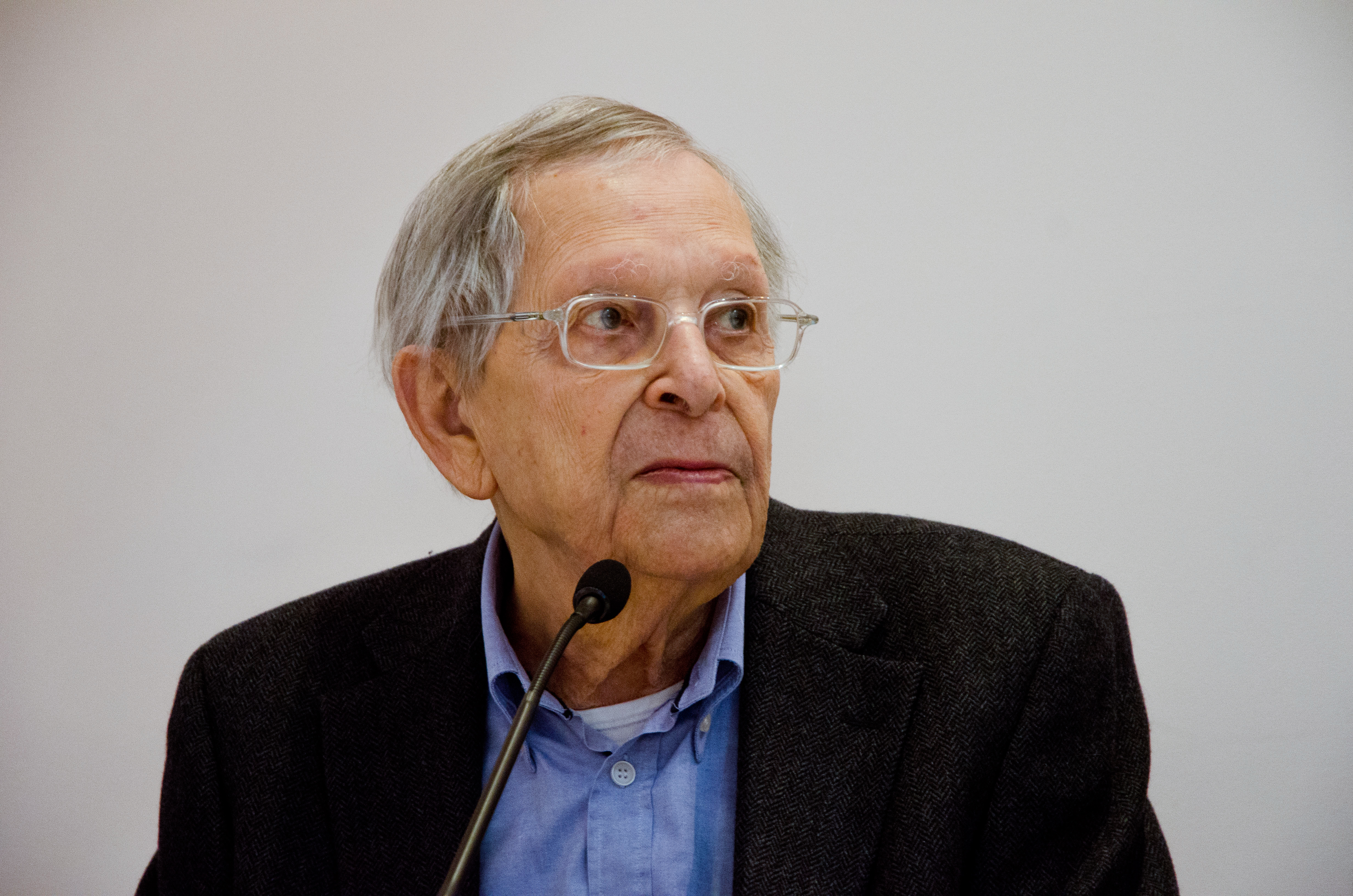 French writer Roger Grenier at the Argentine Pavilion in the Paris Book Fair, March 2014. Photo: Augusto Starita / Secretaría de Cultura de la Presidencia de la Nación